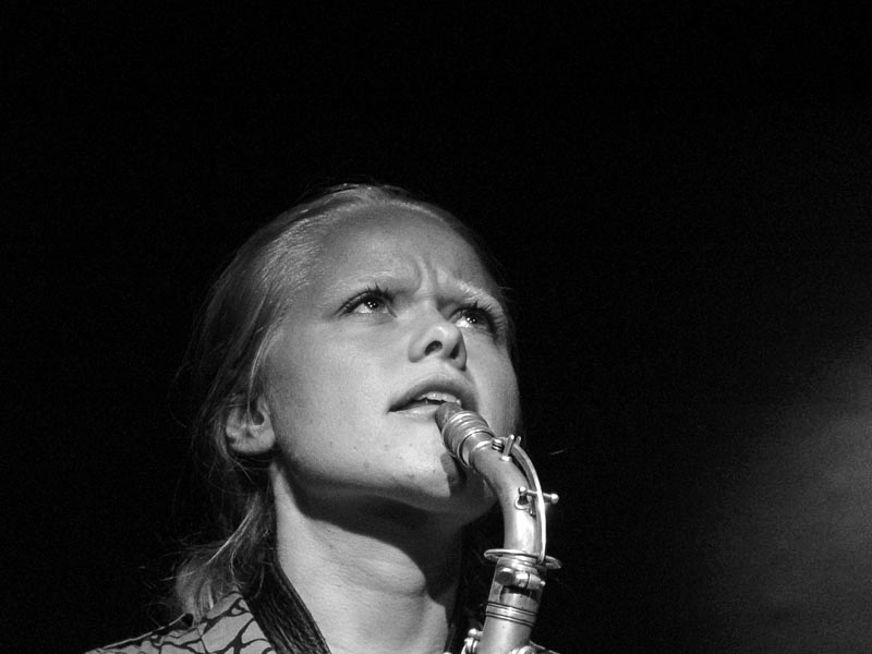 Mette Rasmussen Aarhus, Denmark 2012